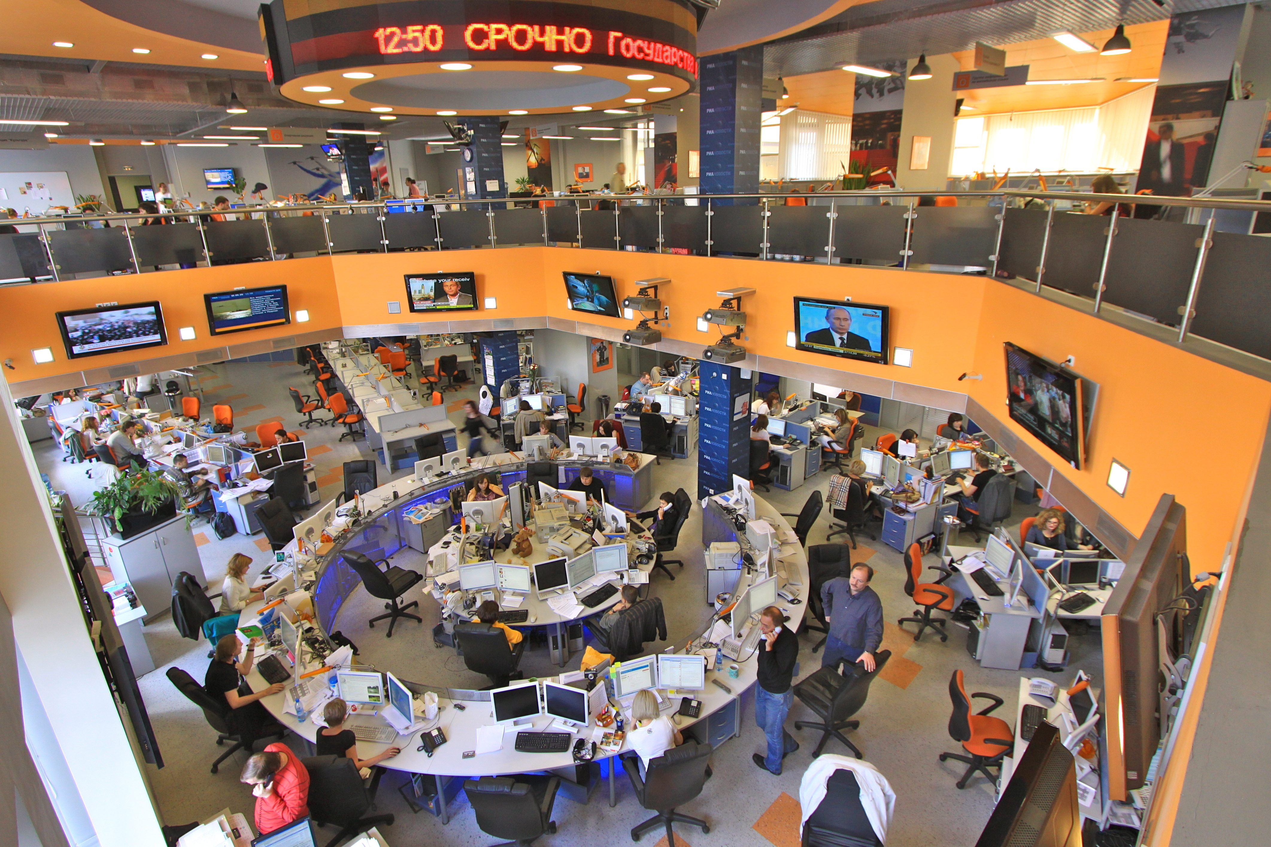 Newsrom of the Russian news agency RIA Novosti in Moscow.